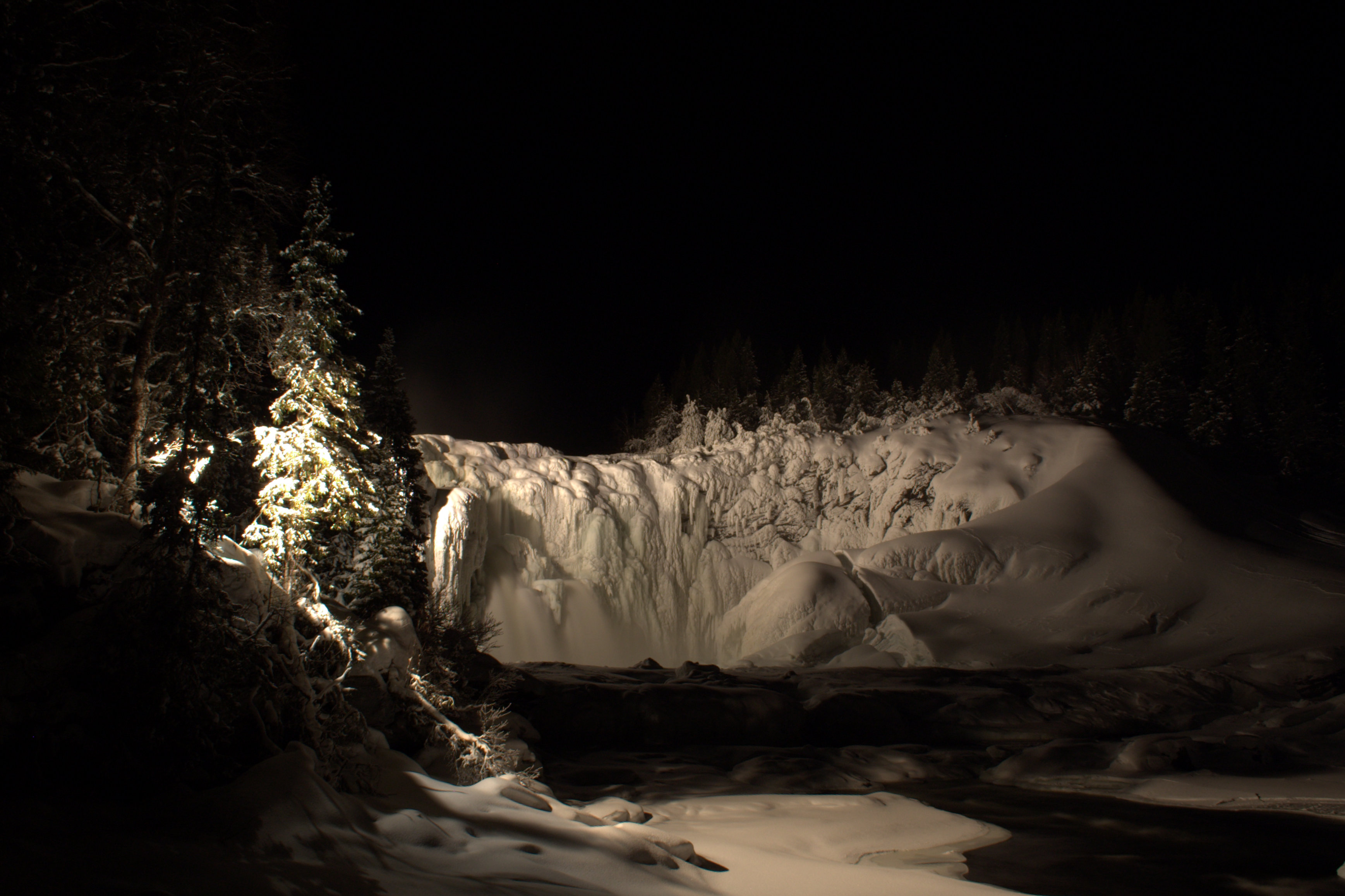 Tännforsen near Åre in Jämtland in the winter 2009. Tännforsen is Swedens greatest waterfall by fall area.